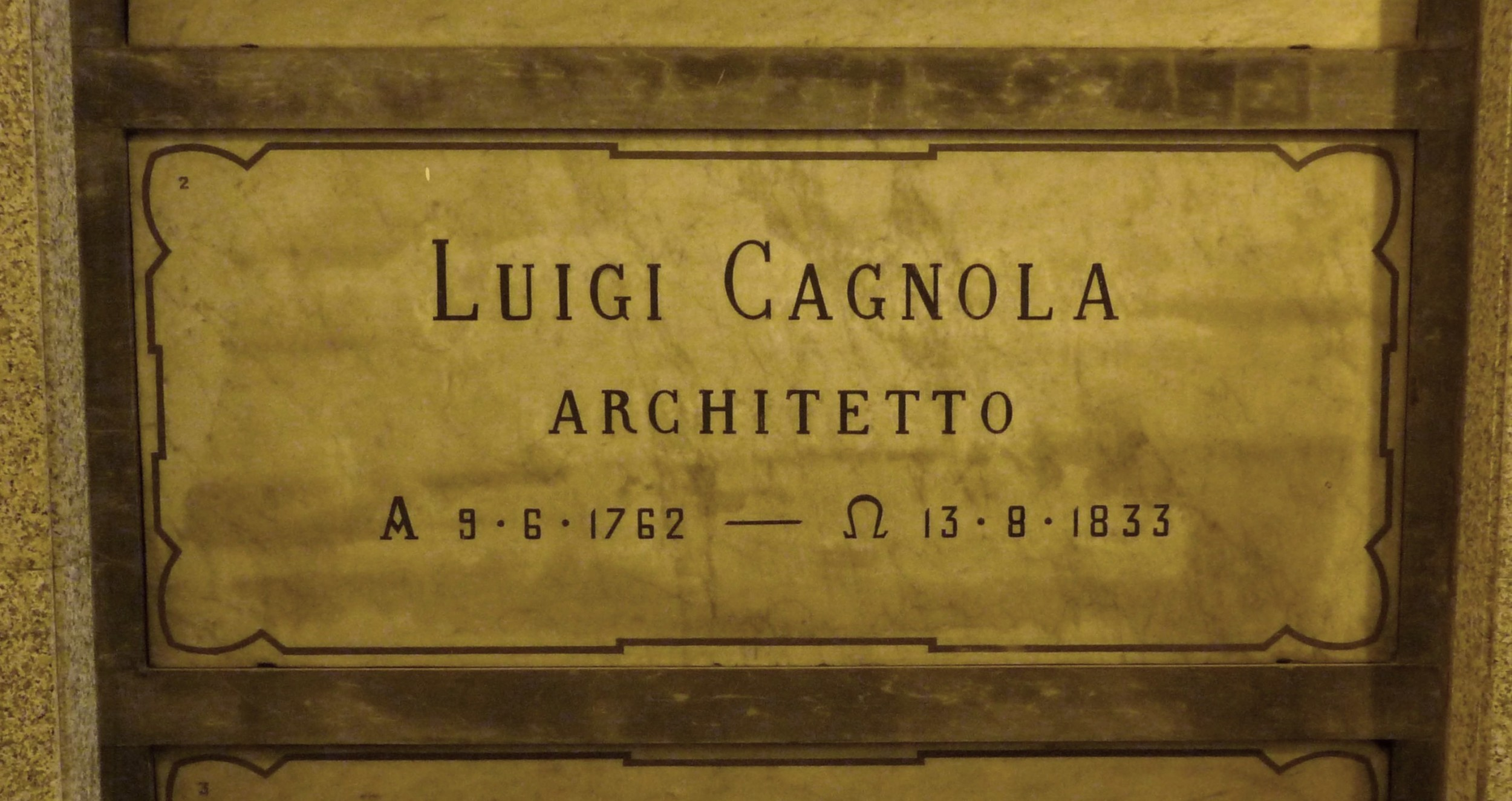 The grave of Italian architect Luigi Cagnola at the Monumental Cemetery of Milan, Italy.